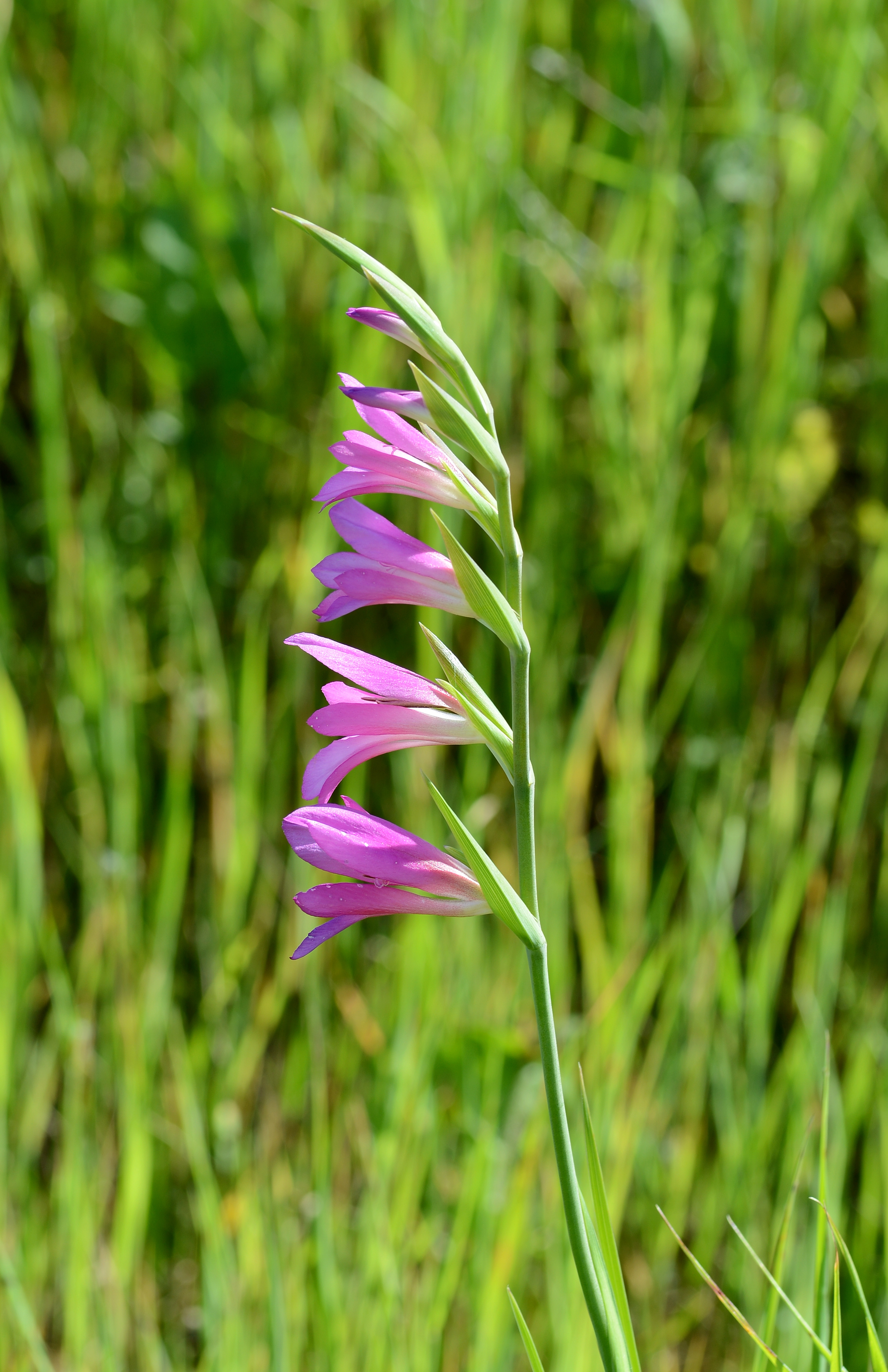 Gladiolus italicus